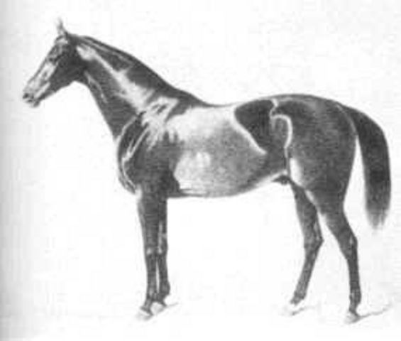 Zernebog (1845-1871) was a black Mecklenburg stallion by the Thoroughbred Jupiter. He was purchased by the Hanoverian State Stud at Celle and is the founder of the prominent F and W lines in the Hanoverian breed.